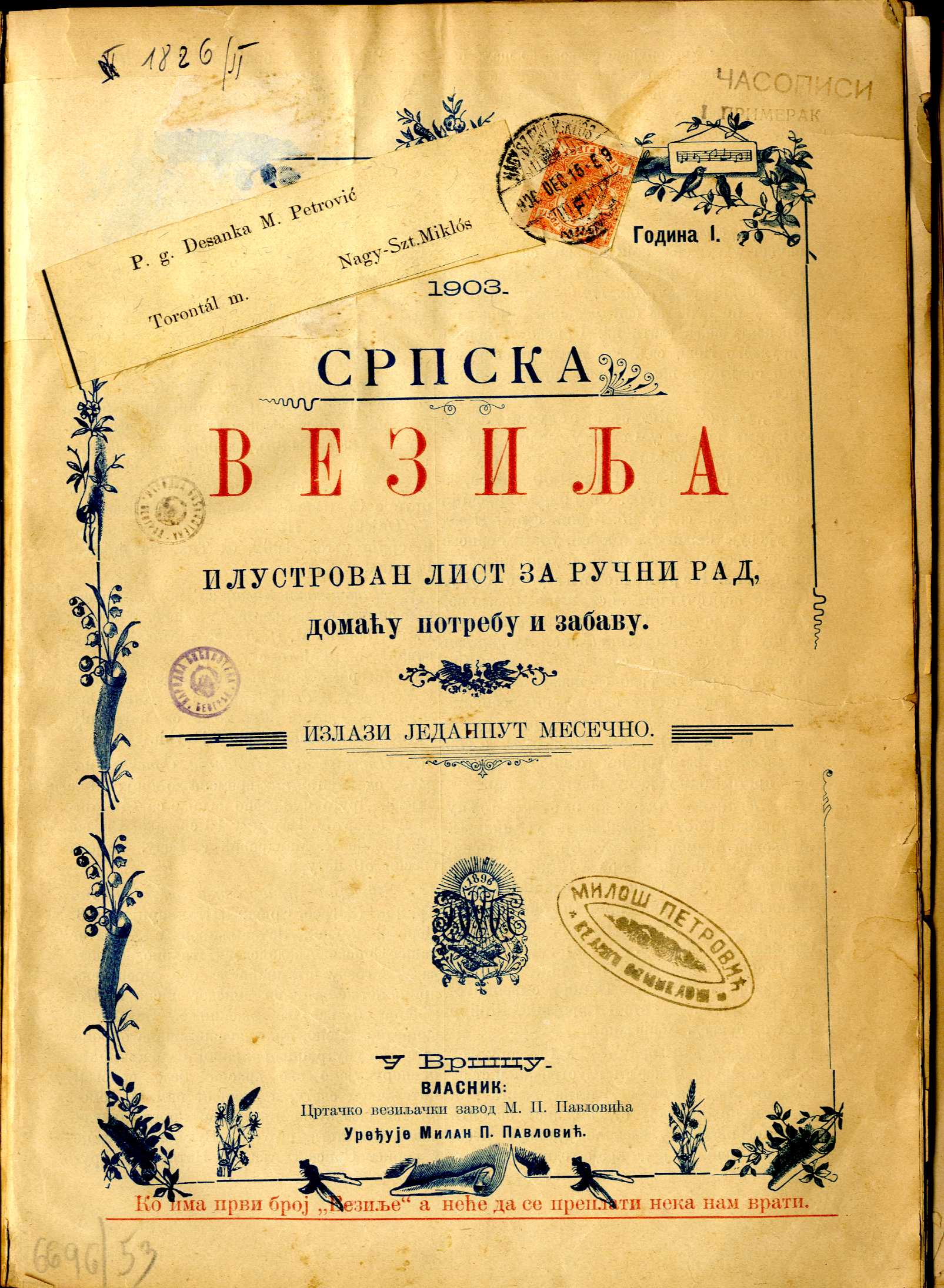 Magazine Srpska vezilja, First page first number, 1903.